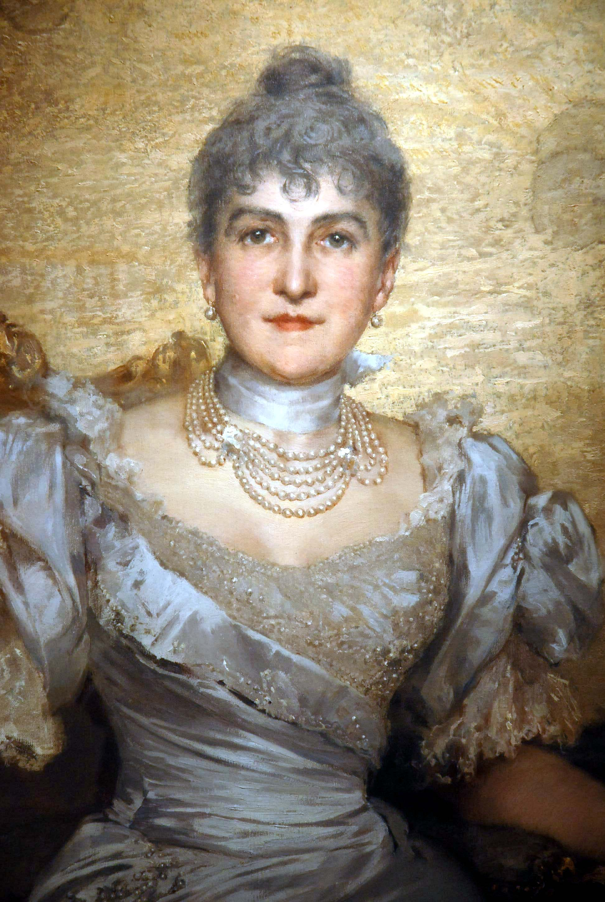 Eduardo Tofano Portrait of Cornelia Adair (Source: T.D. Hobart Papers, Panhandle-Plains Historical Museum)